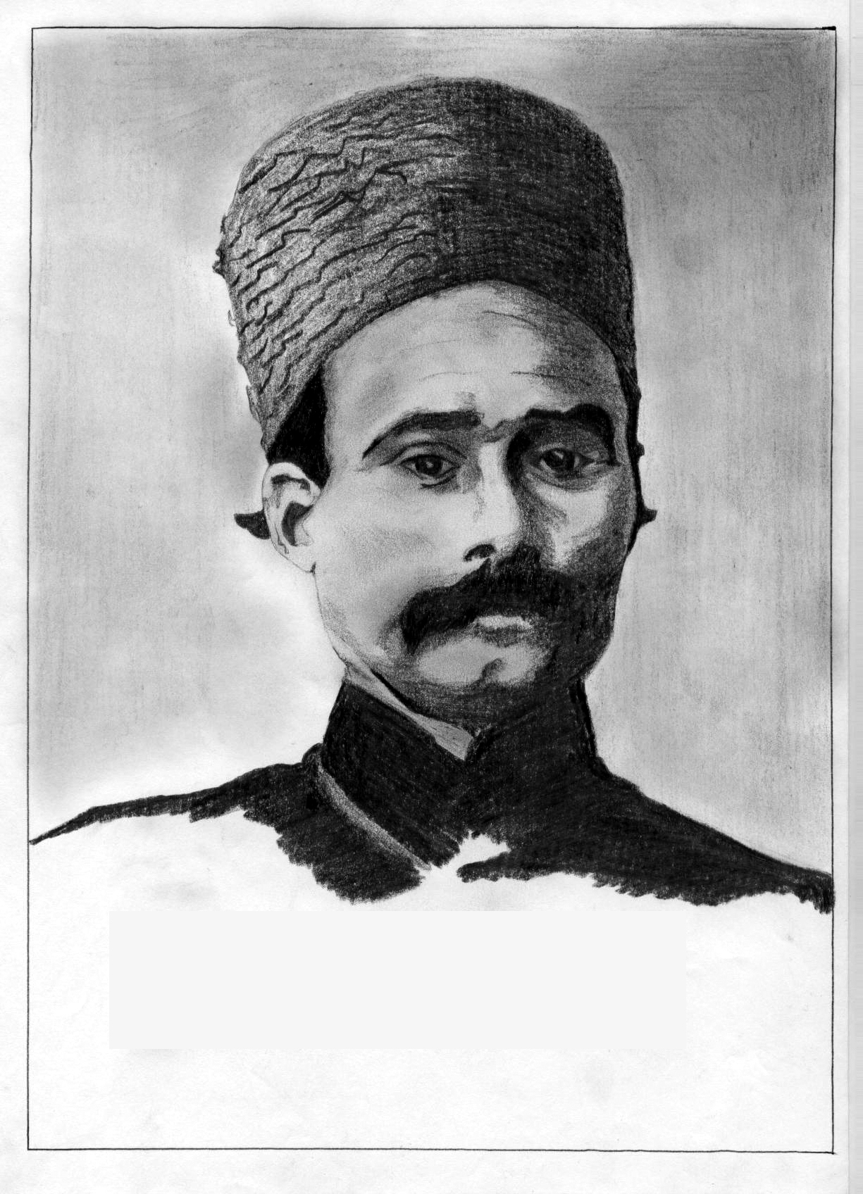 Black and white portrait drawing of Baqer Khan